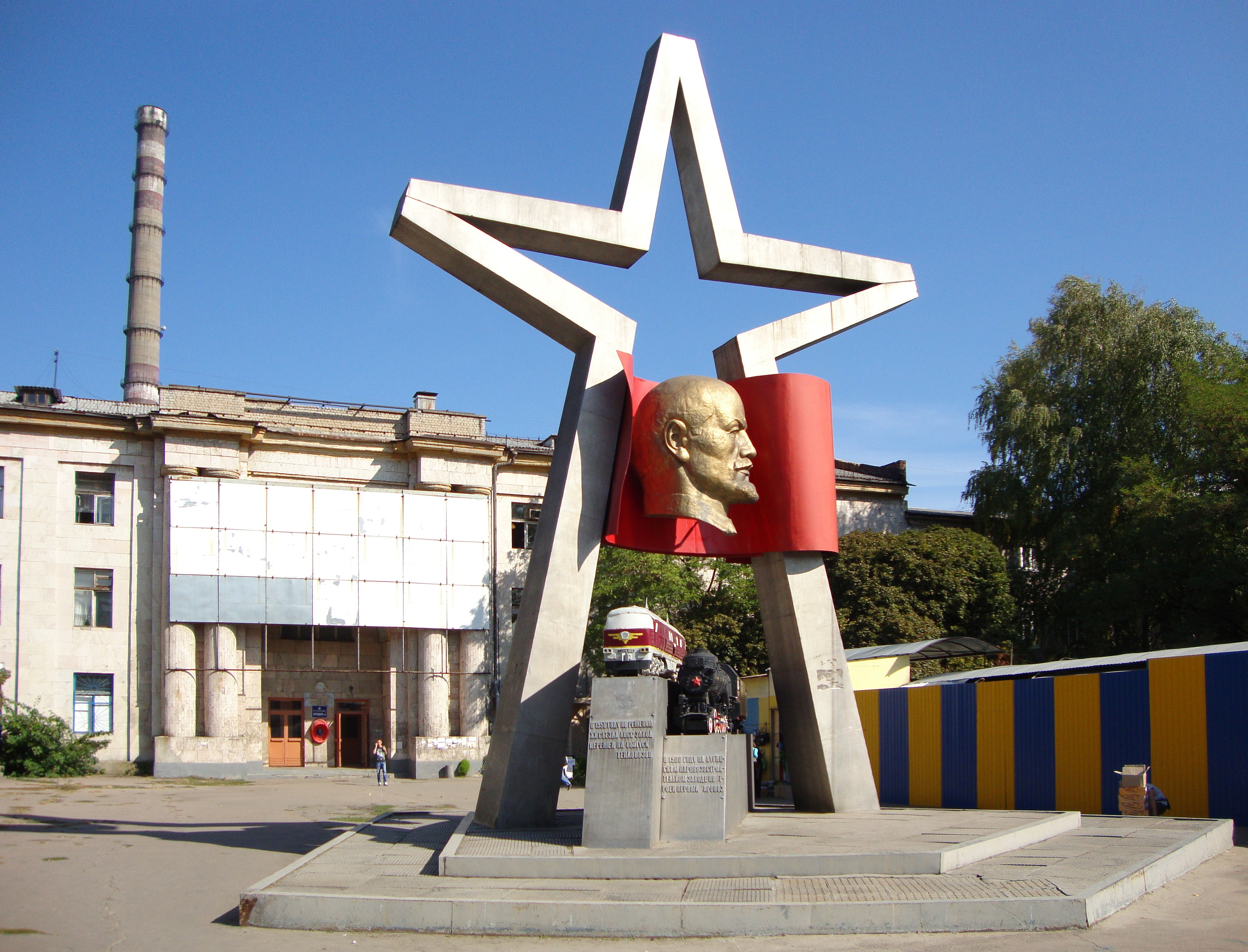 Luhanskteplovoz entry